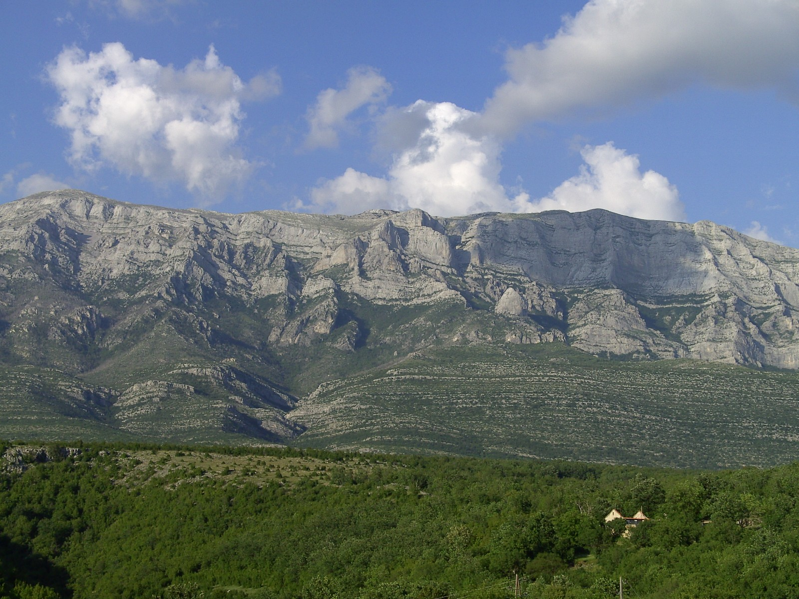 Dinara mountains in Croatia